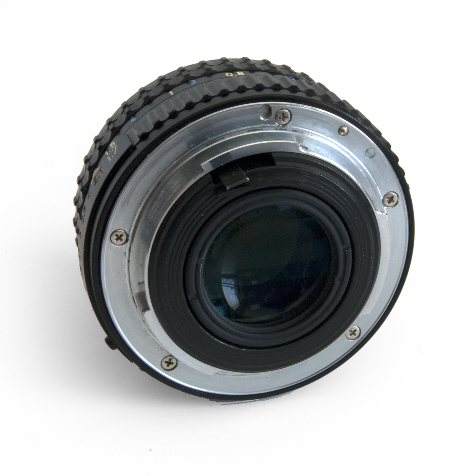 Pentax A 50mm F1.7 lens showing the mount.